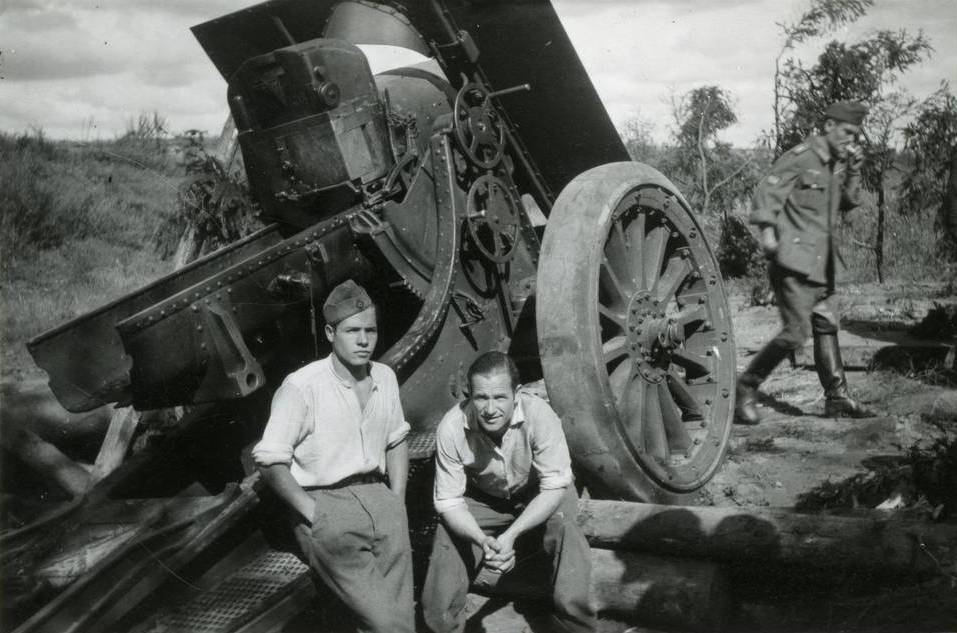 Spanish soldiers at the Eastern Front during World War II